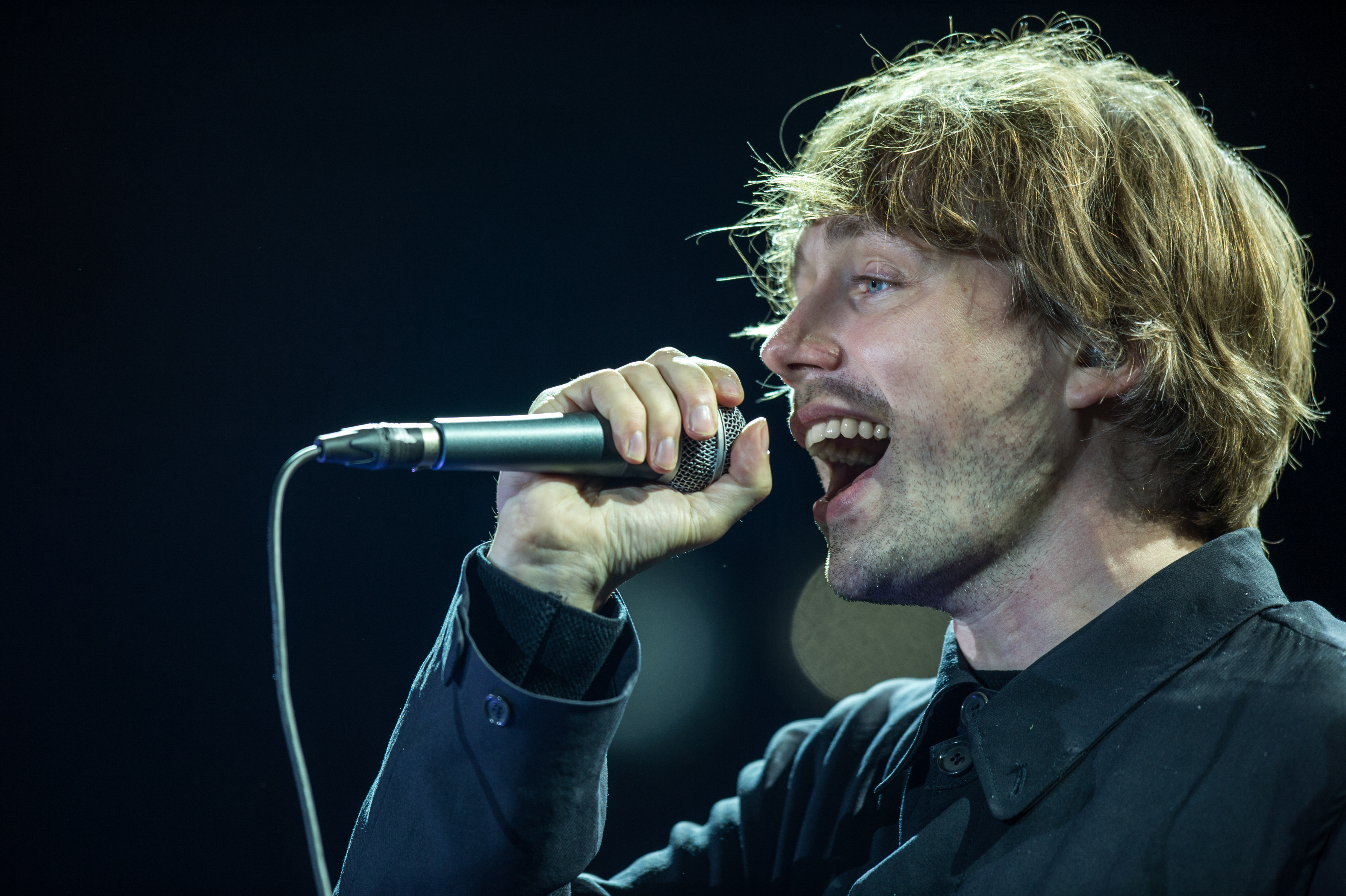 Jonas Bjerre - Mew - Roskilde Festival 2012. Photo credit: Bill Ebbesen